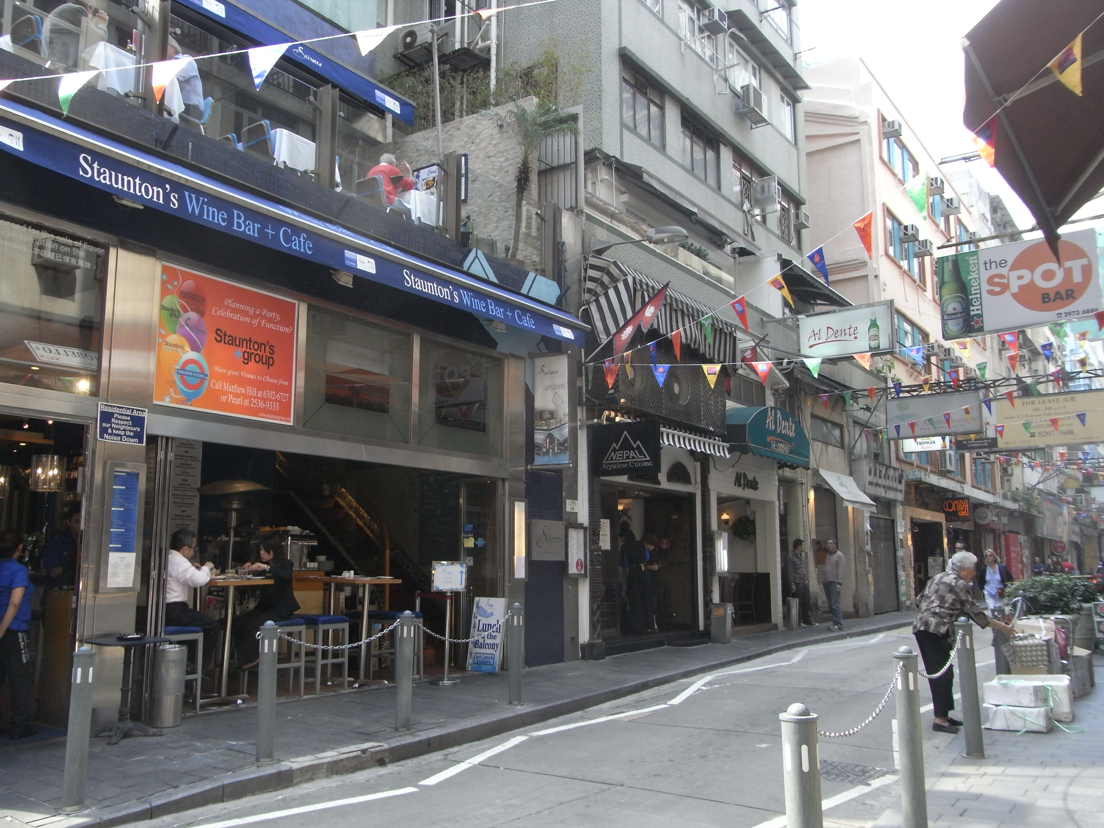 香港島中西區